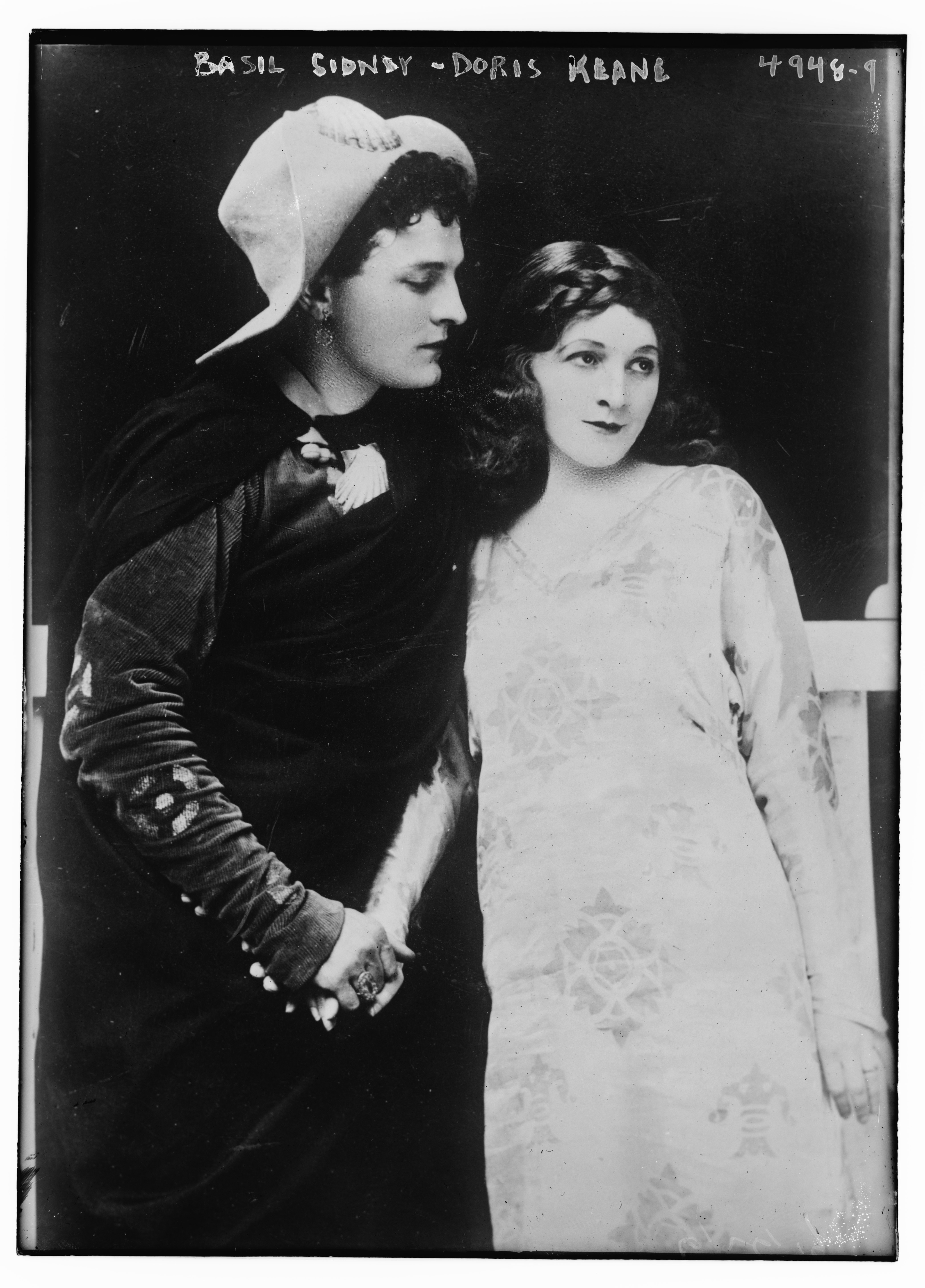 Title: Basil Sidney, Doris Keane Abstract/medium: 1 negative : glass ; 5 x 7 in. or smaller.